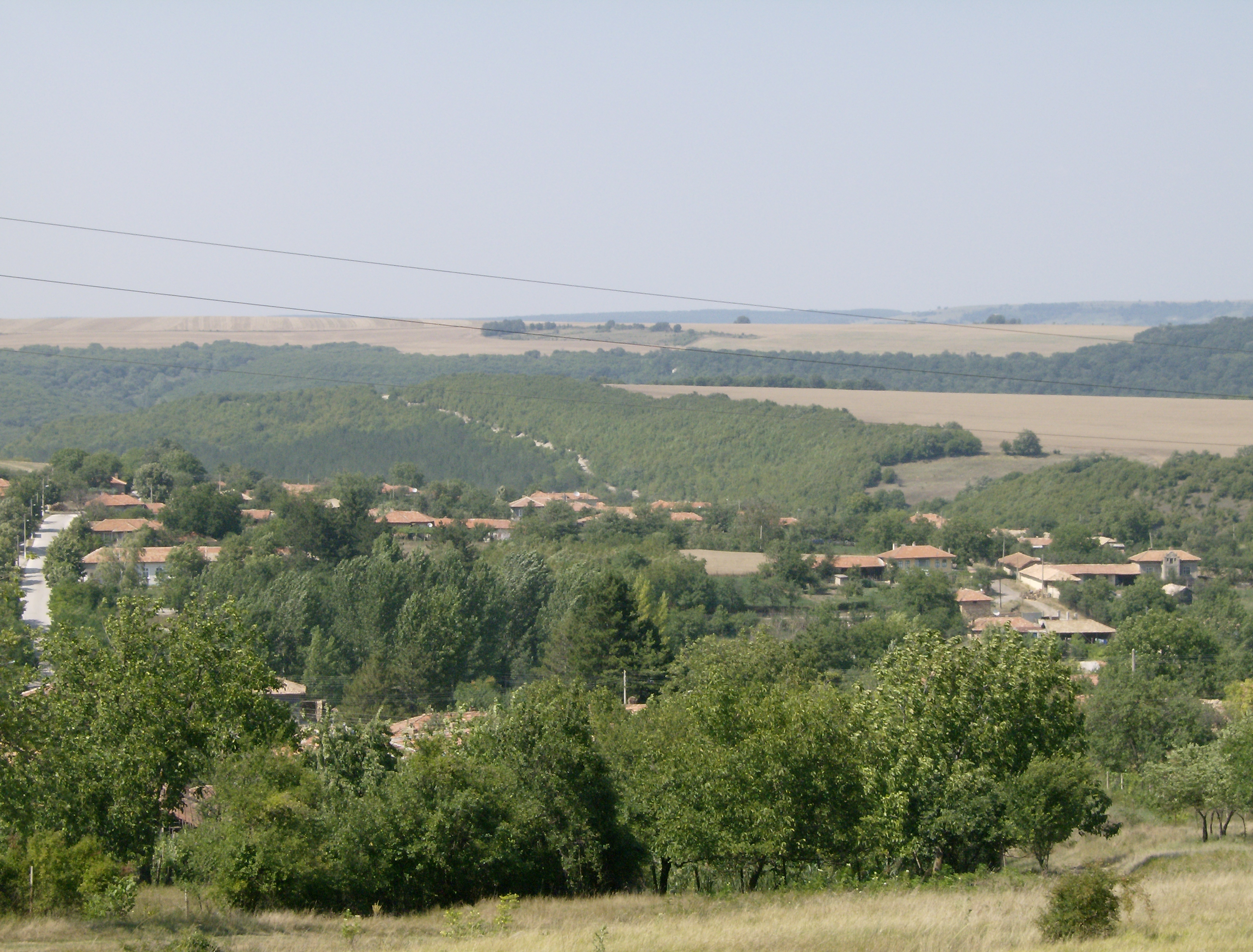 Kladenetc (Shumen District)